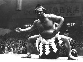 Taken from Mainichi Shinbun (newspaper) site clearly stating this published photograph come before 1956.